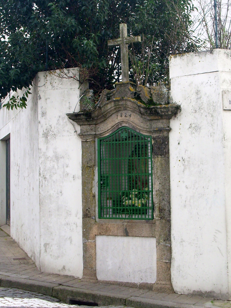 Alminha (Small temple for the Souls of Purgatory) built in 1824